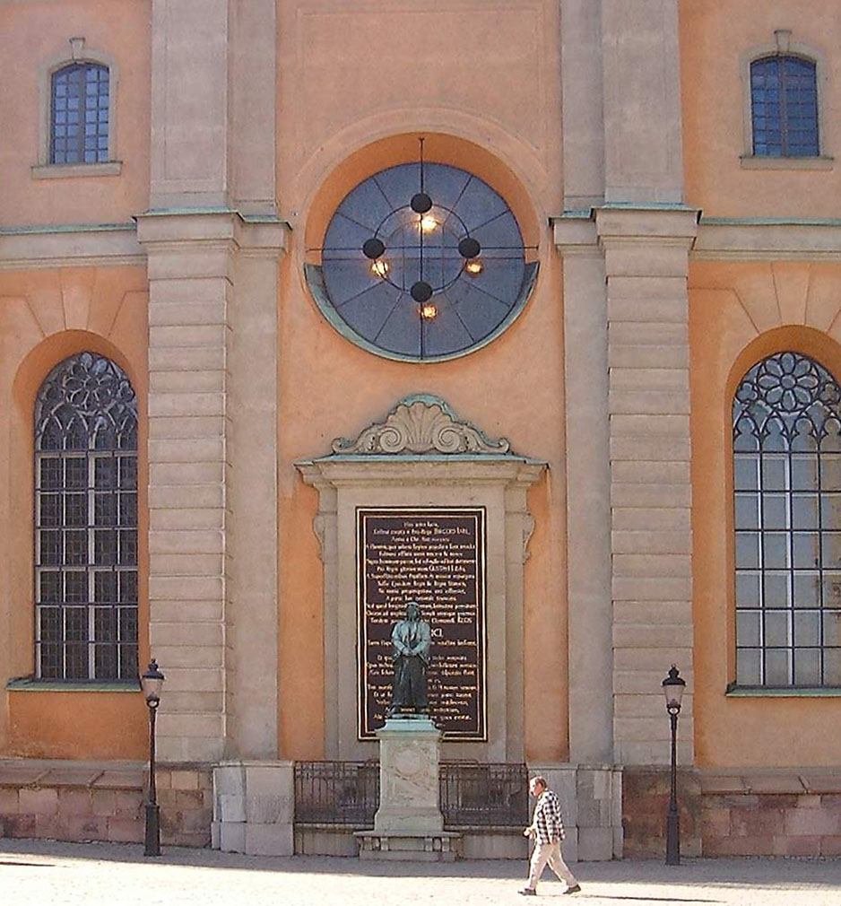 Statue of Olaus Petri at Slottsbacken with the Sun dog emblem, Gamla stan, Stockholm. Rotated, perspective adjusted, cropped.